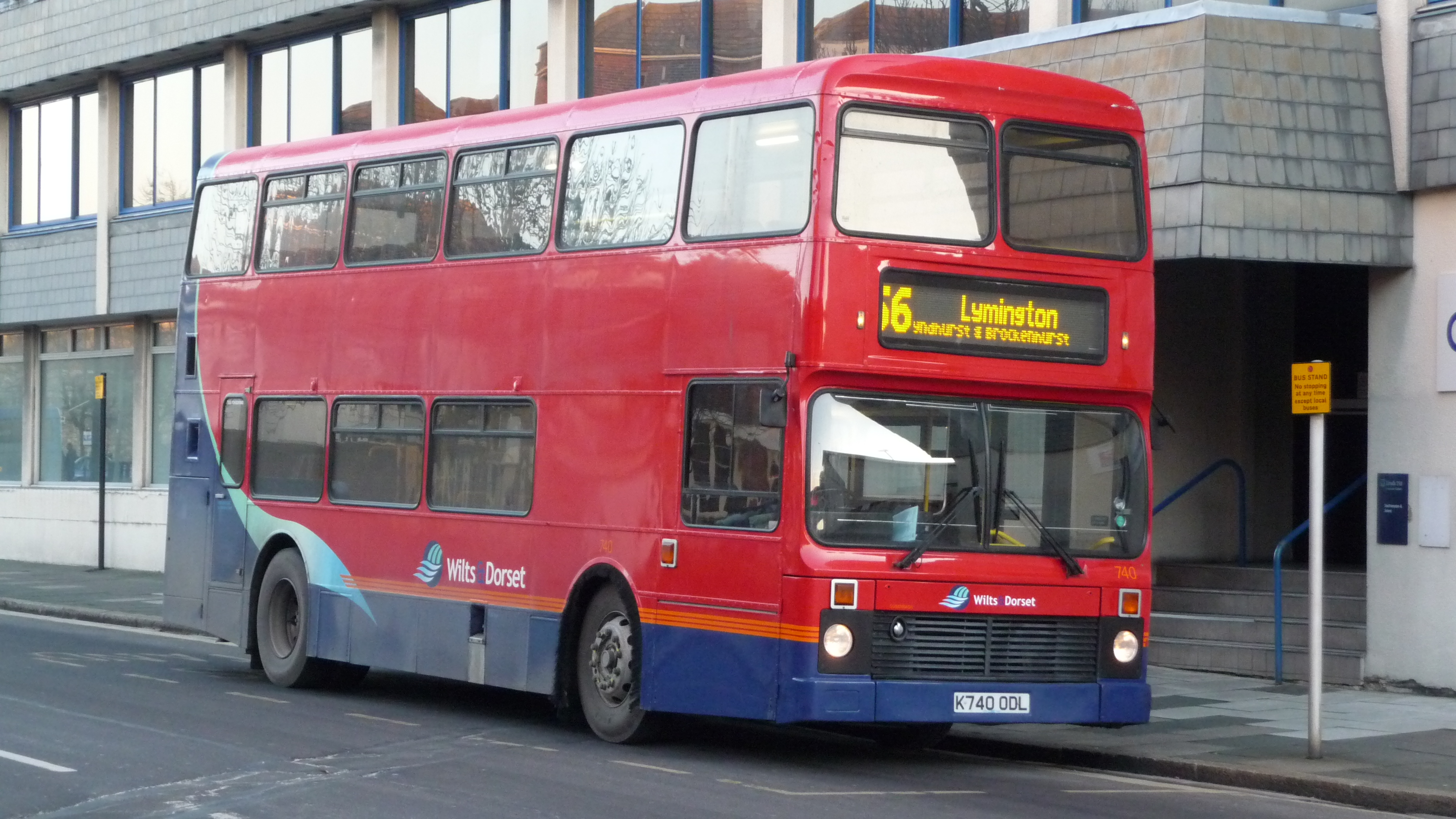 Wilts & Dorset 740 (K740 ODL), a Leyland Olympian/Northern Counties Palatine, in Castle Way, Southampton, laying over between duties on route 56. This bus was transferred to Wilts & Dorset from Southern Vectis in January 2009.